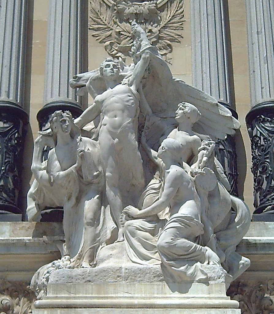 Progress is represented by the young man carrying the torch, accompanied by Pegasus (behind him), symbol of speed. The three female figures represent Literature (left), Industry and Commerce (right, foreground) and Arts (right, behind the previous one).